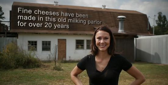 Tasia Malakasis outside of her creamery, Belle Chevre.